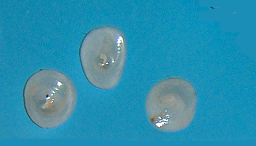 Calyptraea chinensis (chinaman's hat) is a sea snail form the family Calyptraeidae